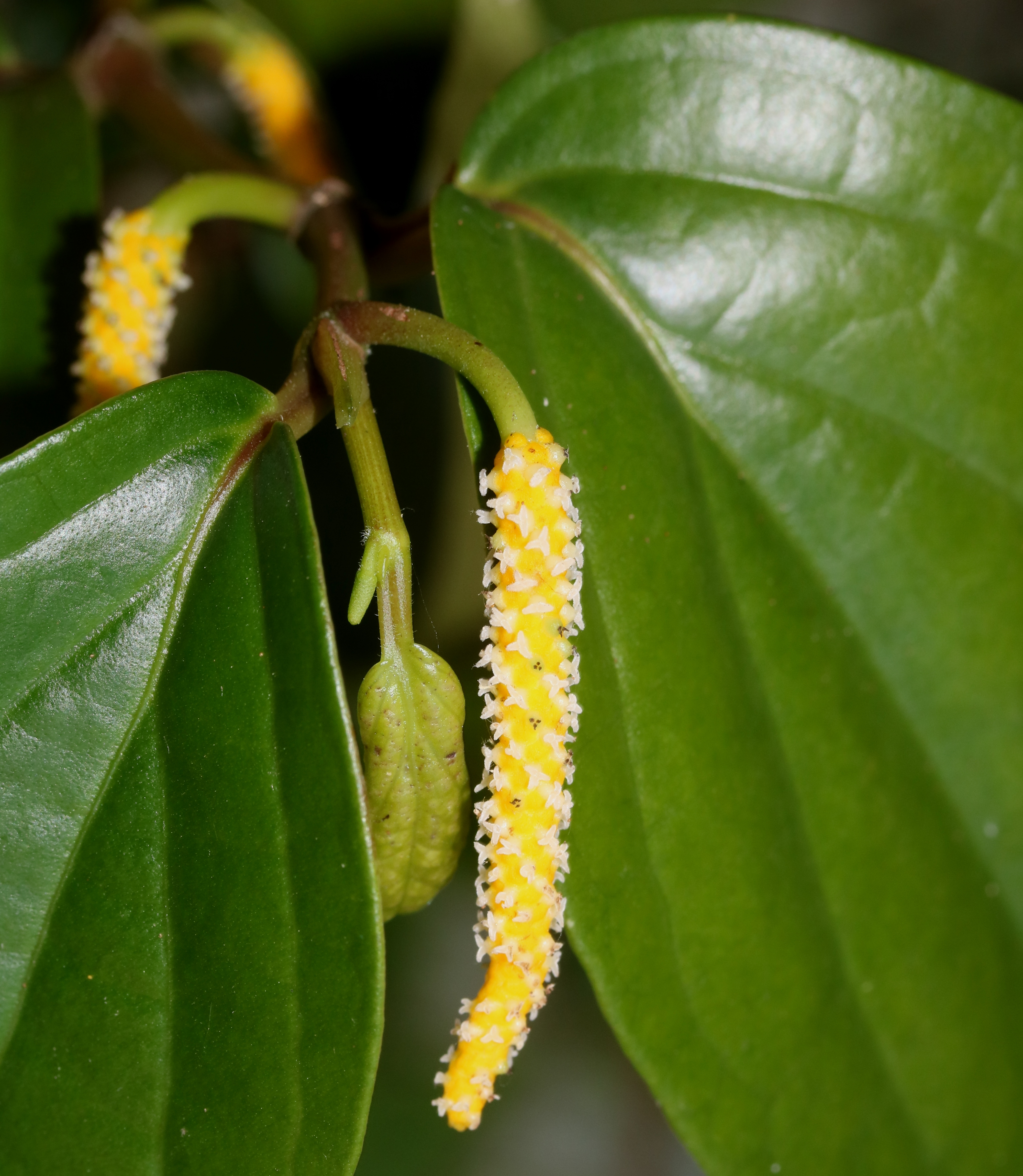 Piper kadsura in Suga Island, Toba, Mie Prefecture, Japan.